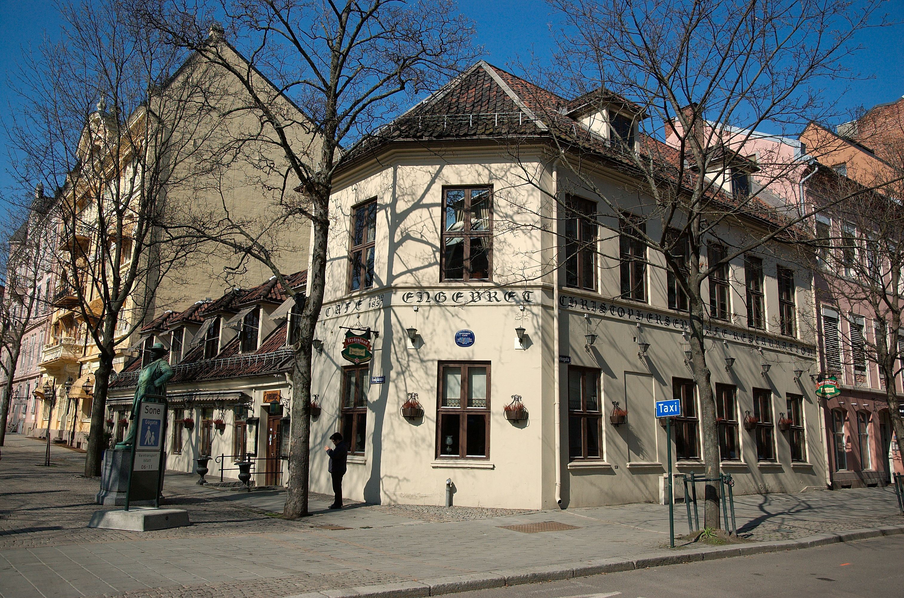 Café Engebret, Bankplassen 1b, Oslo. Built around 1760.